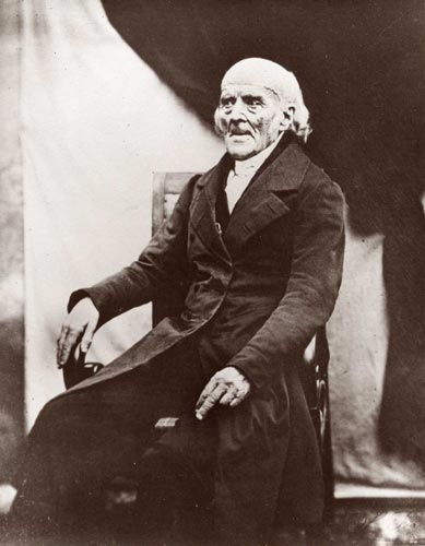 Daguerreotype of Samuel Hahnemann, founder of Homeopathy, born 1755.